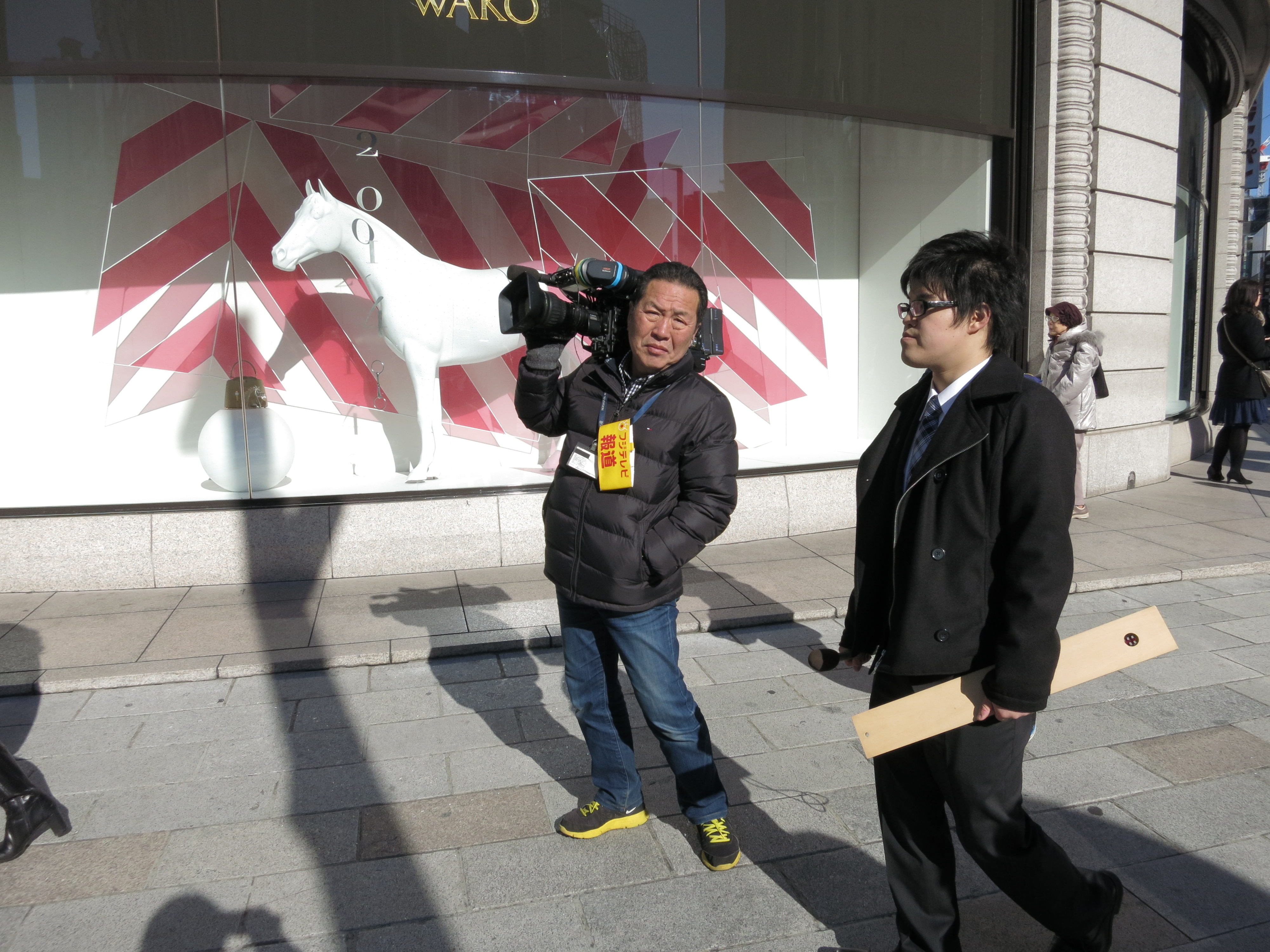 Fuji TV News interview about cold Tokyo in Ginza.